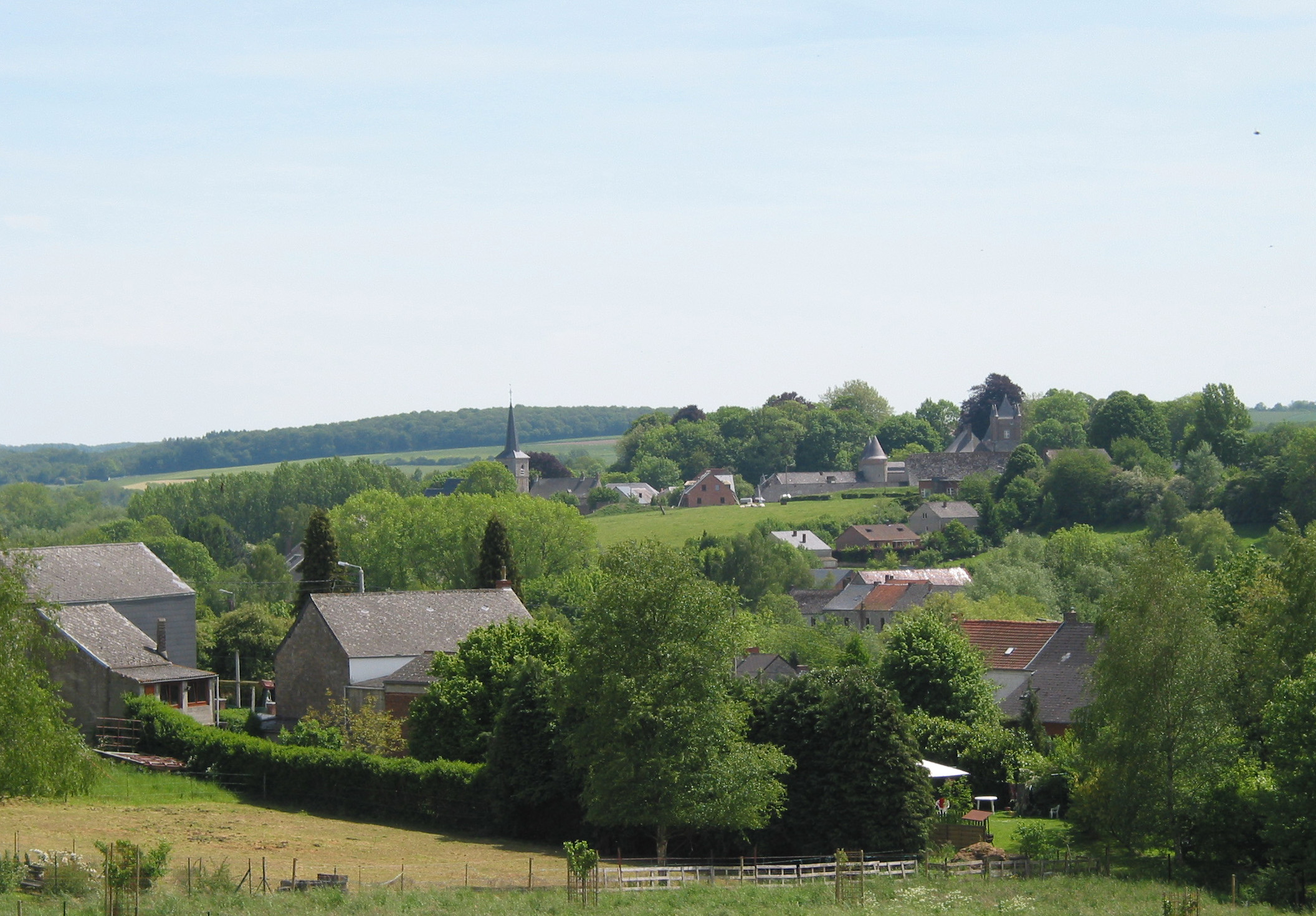 Berzée (Belgium), the village and old castle farm of the family « de Trazegnies ».